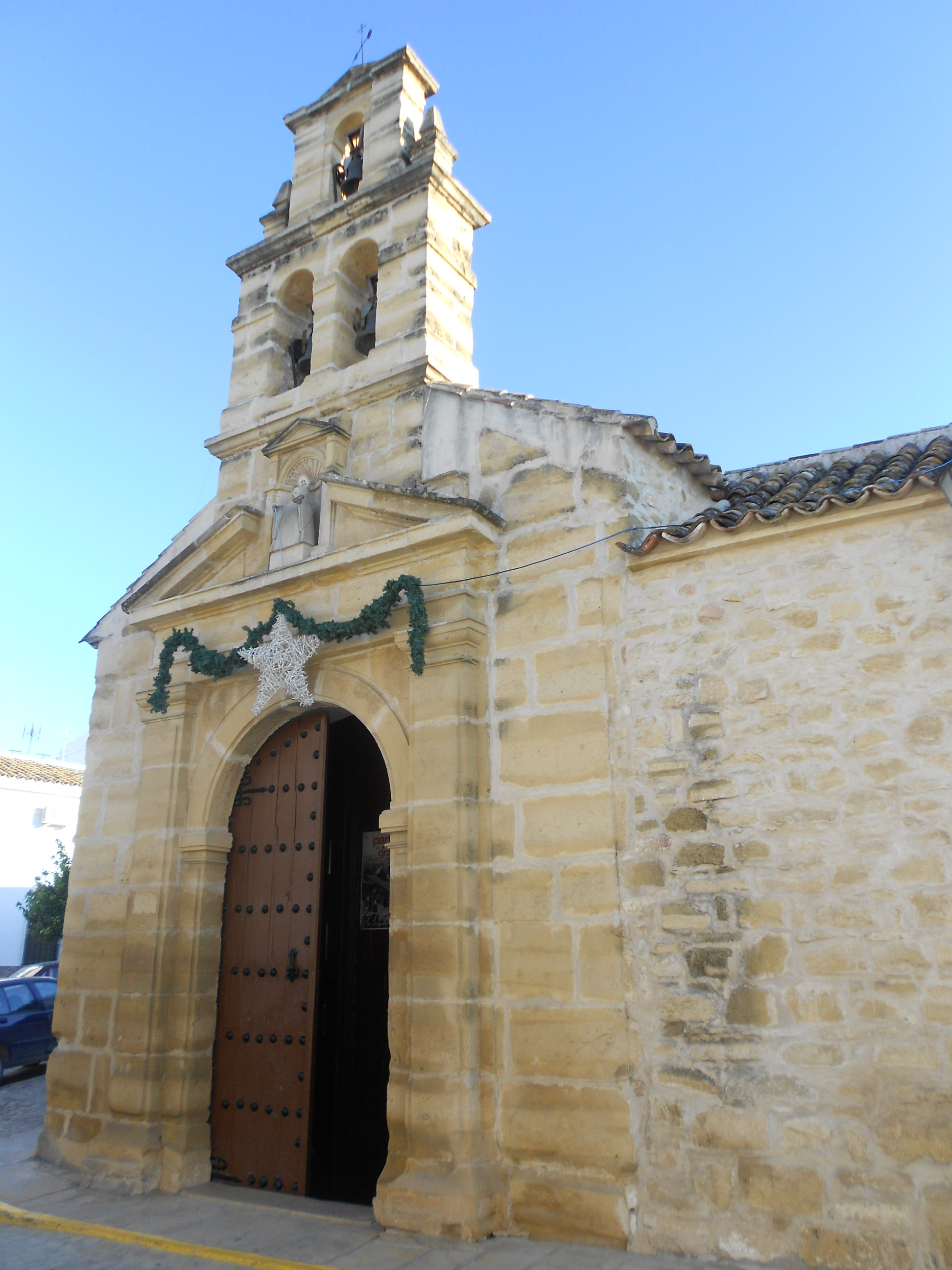 CHURCH OF SAN BENITO. PORCUNA (JAEN). SPAIN